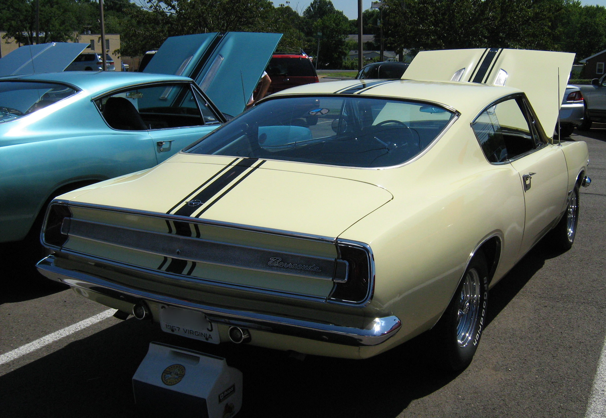 1967 Plymouth Barracuda -- yellow fastback